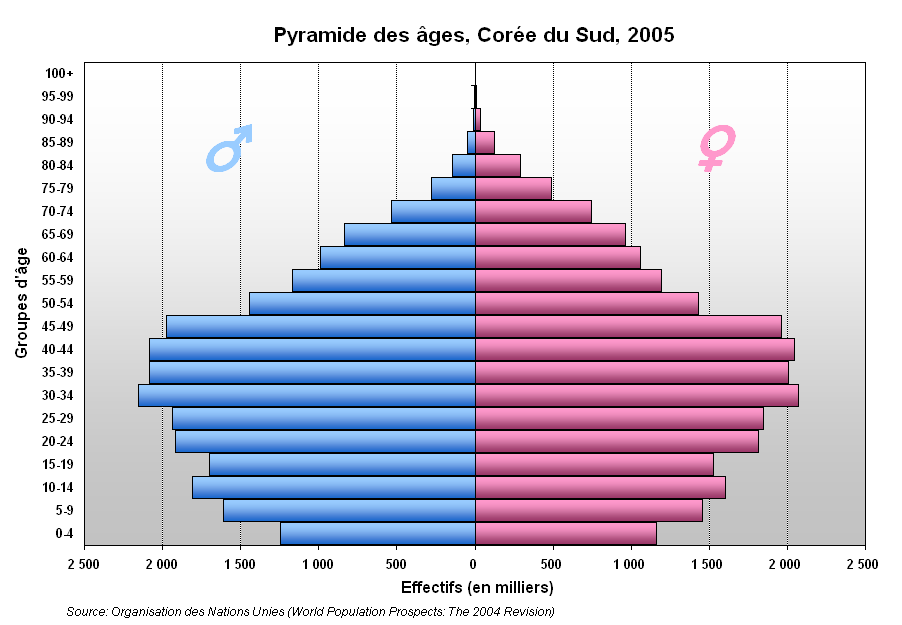 South Korea Population pyramid, 2005